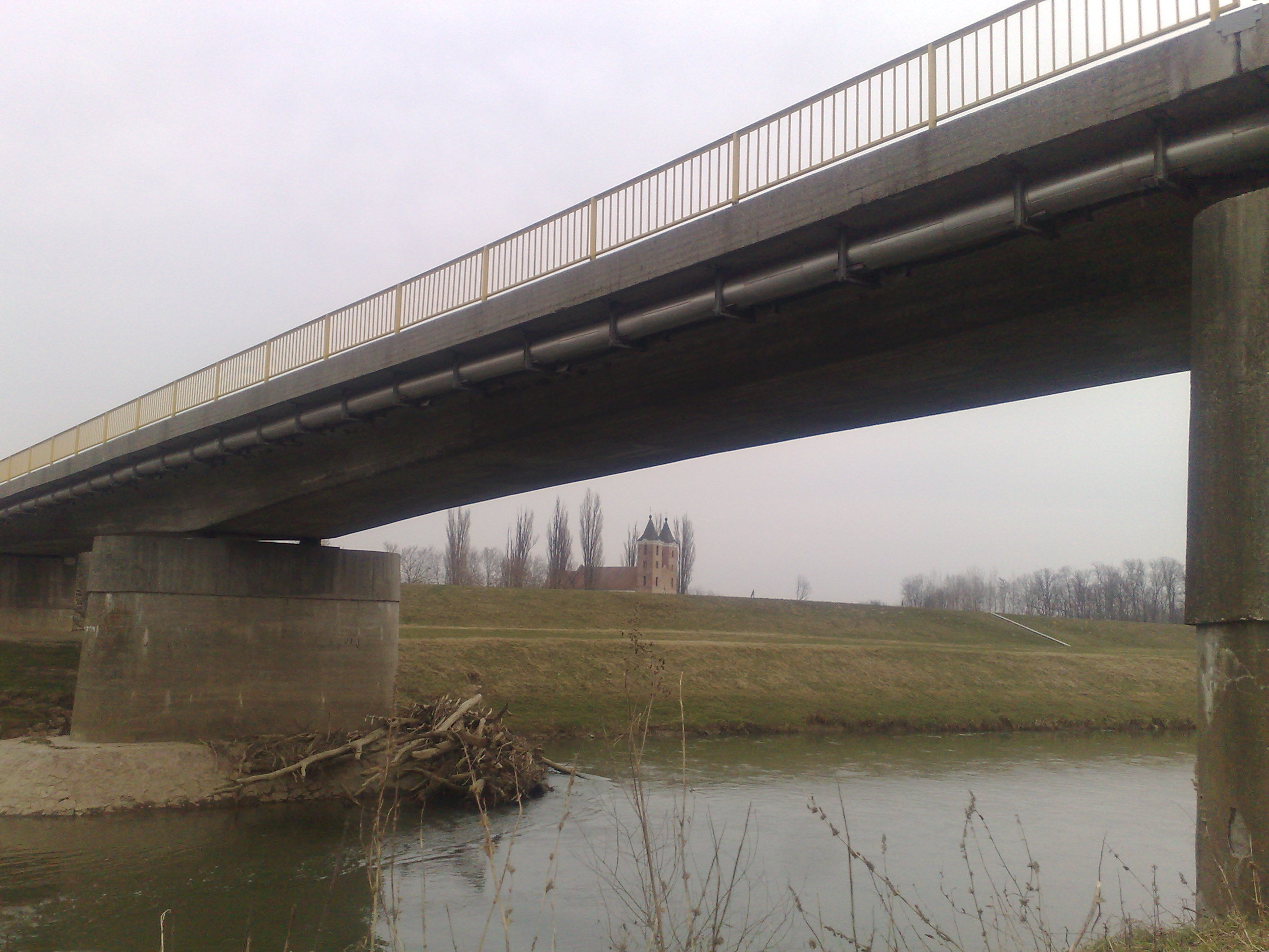 The bridge on the river Rába near Árpás in Hungary - in the background the medieval church of the village